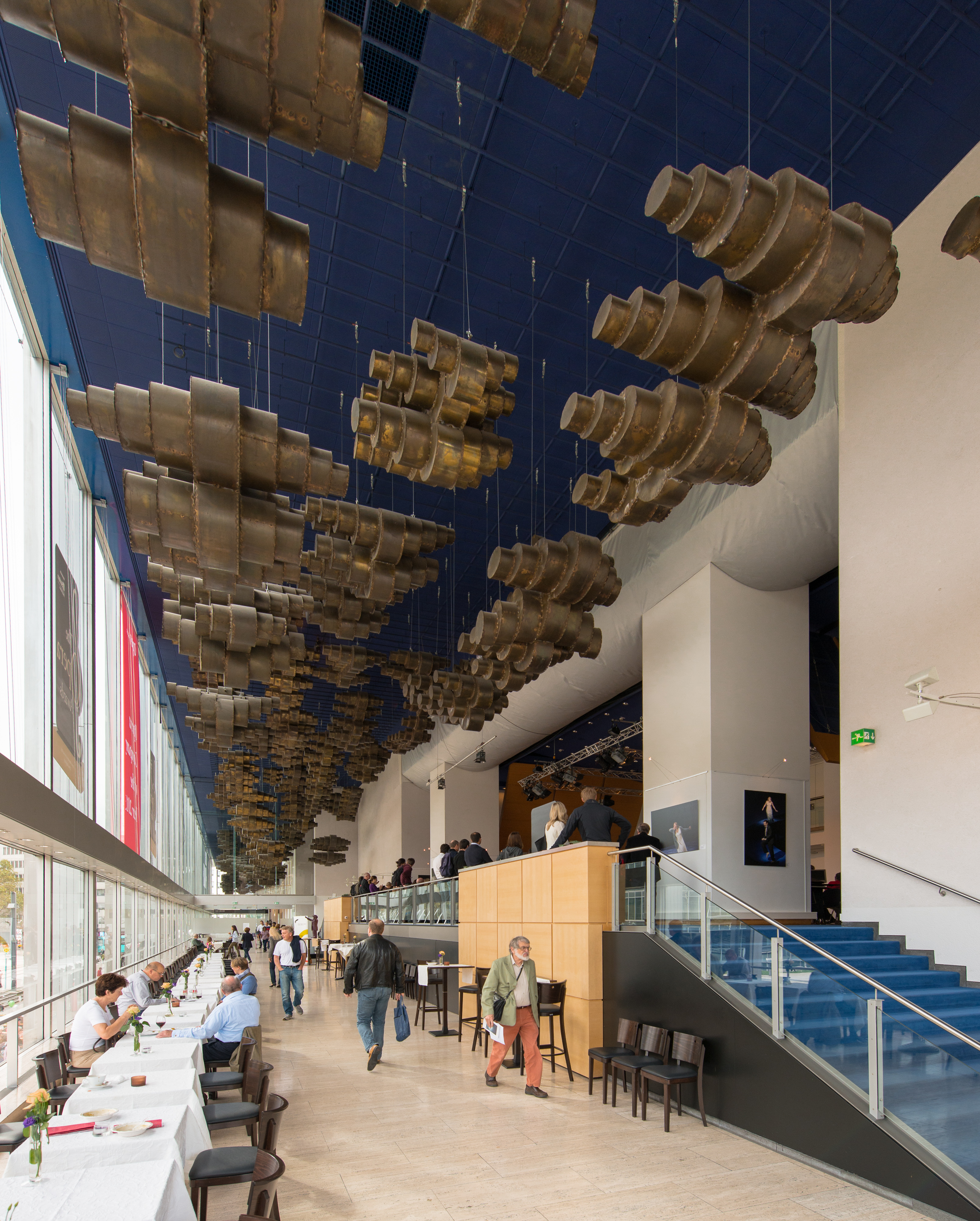 Frankfurt am Main, Opern- und Schauspielhaus Frankfurt, "Goldwolken" installation in the lobby.